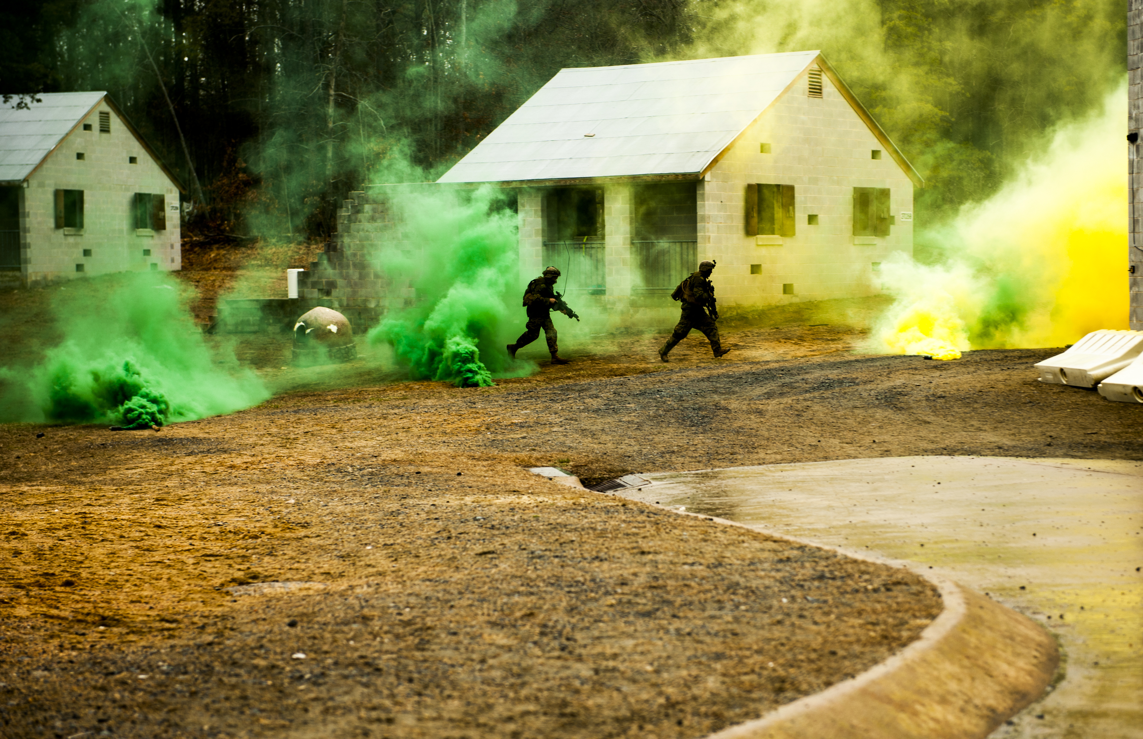 U.S. Marine Corps officers with Alpha Company, The Basic School (TBS), cross a danger area during urban operations training at Marine Corps Base Quantico, Va., 28 March 2014. TBS is where newly commissioned officers learn the basics of combat. (U.S. Marine Corps photo by Cpl. Sonia N. Rodriguez/Released)